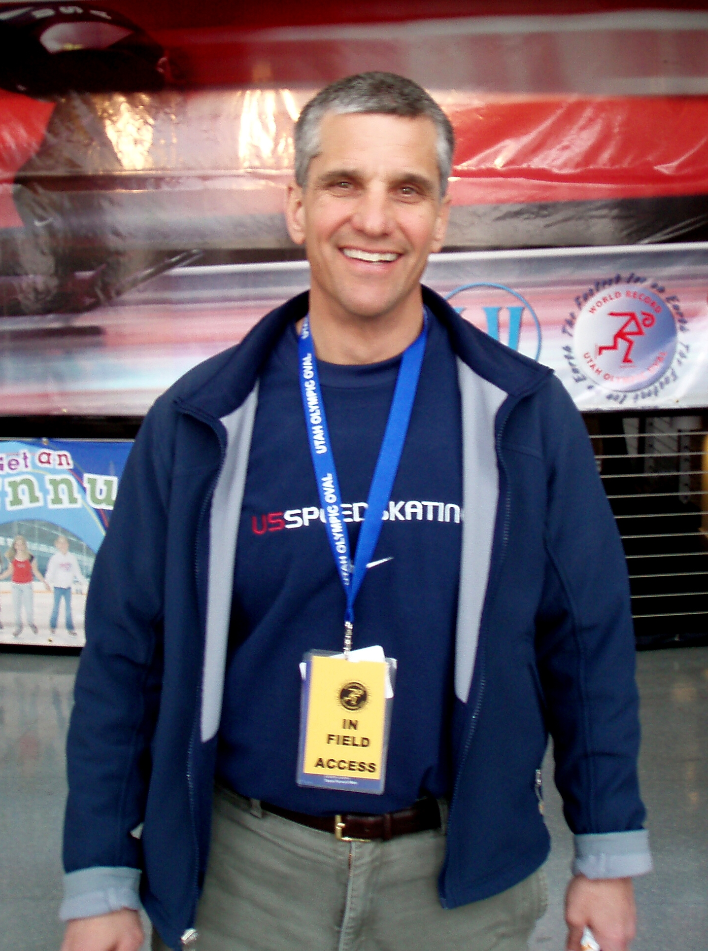 Eric Heiden is a former speedskater and current teamdoctor from the U.S